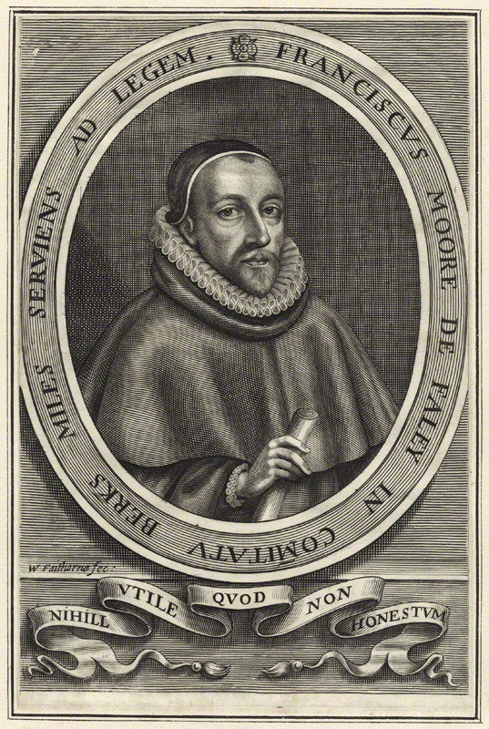 Sir Francis Moore (1599-1621), line engraving by William Faithorne, published in 1663. 7 3/4 in. x 5 1/8 inches. (Given to the NPG by the daughter of compiler William Fleming MD, Mary Elizabeth Stopford (née Fleming), 1931.) NPG D26106 Other information William Faithorne seemingly after another earlier artist, as Moore had died by the time Faithorne got going.